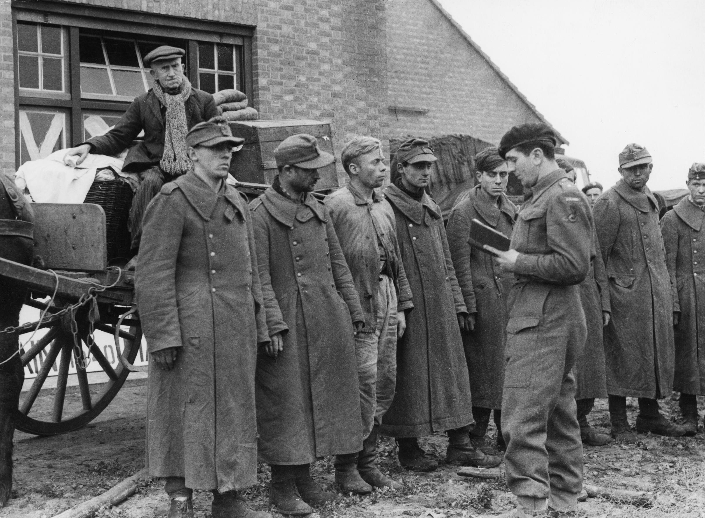 The Polish Army in the North-west Europe Campaign, 1944-1945 Dutch farmer with his household goods on a farm wagon looking down on a line of German POWs interrogated by a Lieutenant of the 1st Polish Armoured Division. The photograph was taken after Polish troops captured the Dutch towns of Alphen and Gilza on 27th October 1944 after the Battle of Tilburg and were moving on to Breda.